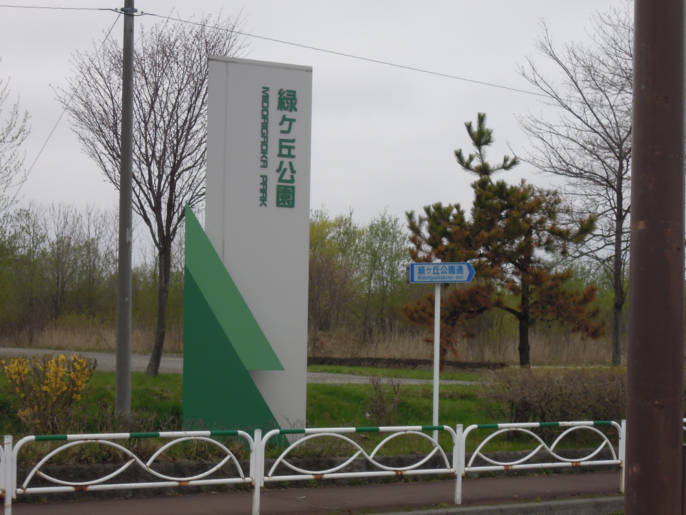 Midorigaoka Park (Tomakomai city, Japan) entrance